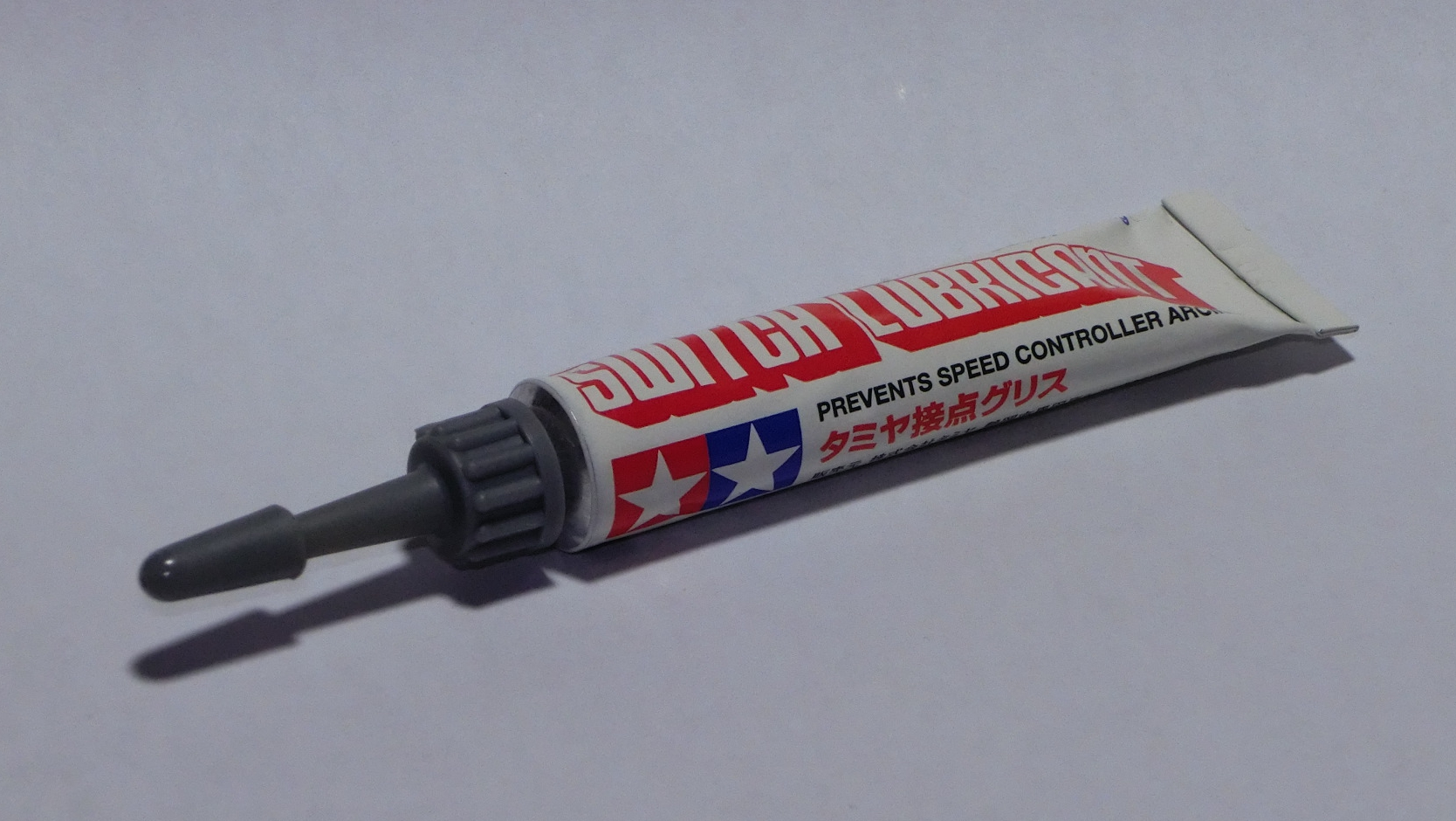 Tamiya switch lubricant